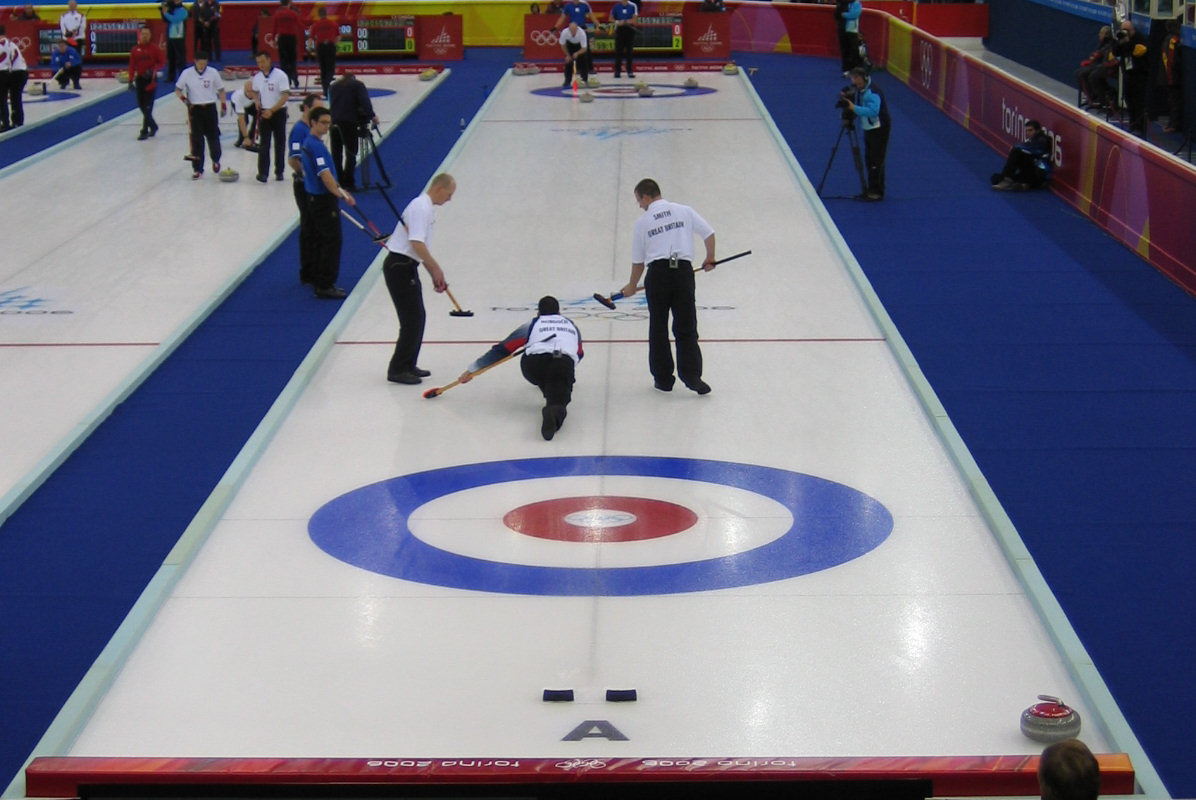 David Murodh throwing stone in 2nd end, match against Sweden, 2006 Winter Olympics